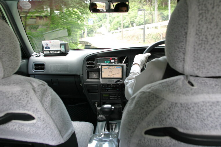 Taxi ride through Kyoto, GPS navigation system installed.